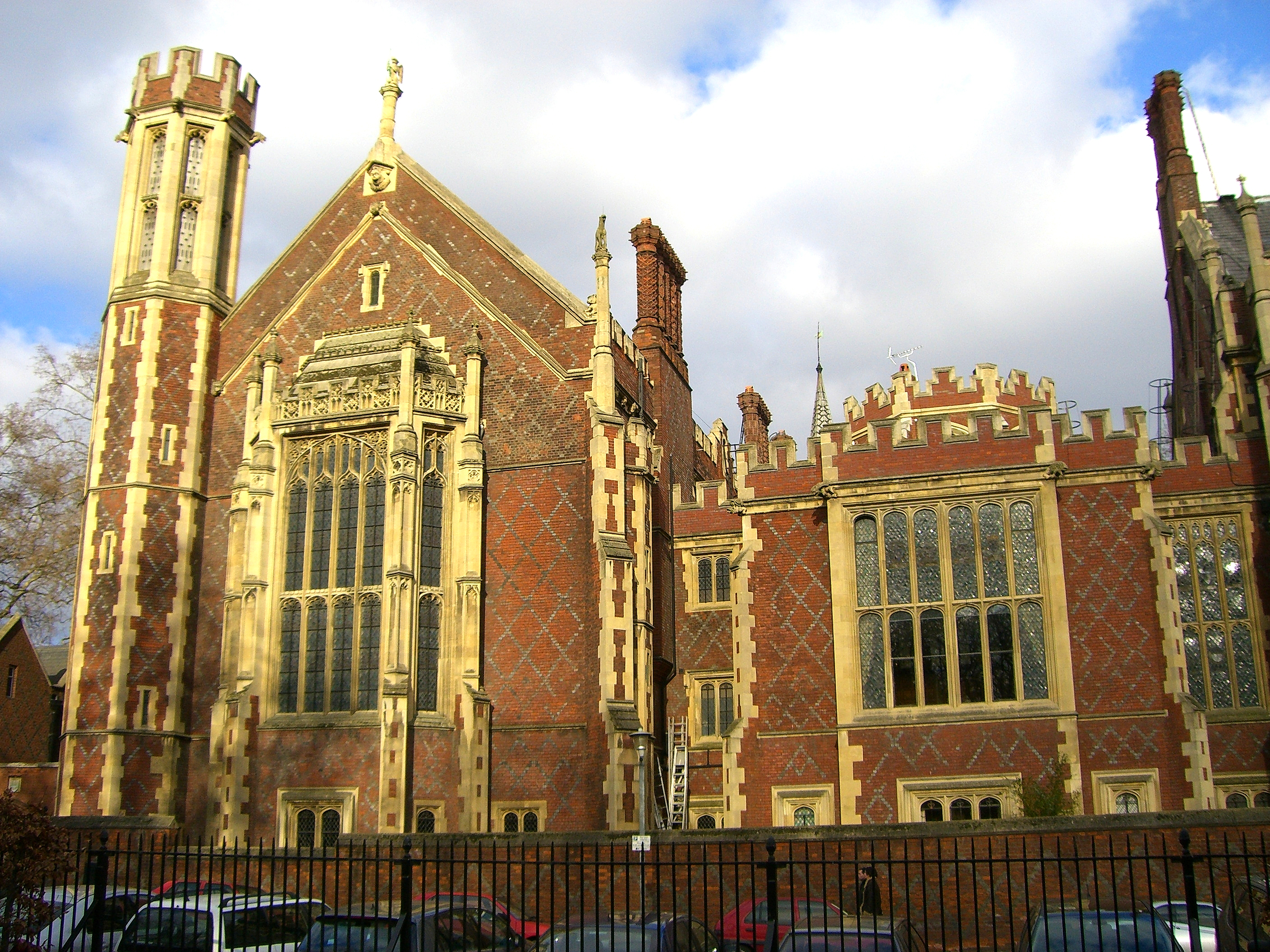 Lincoln's Inn Photo taken by User:Edward on 19 March 2006 with a Casio EX-S600.